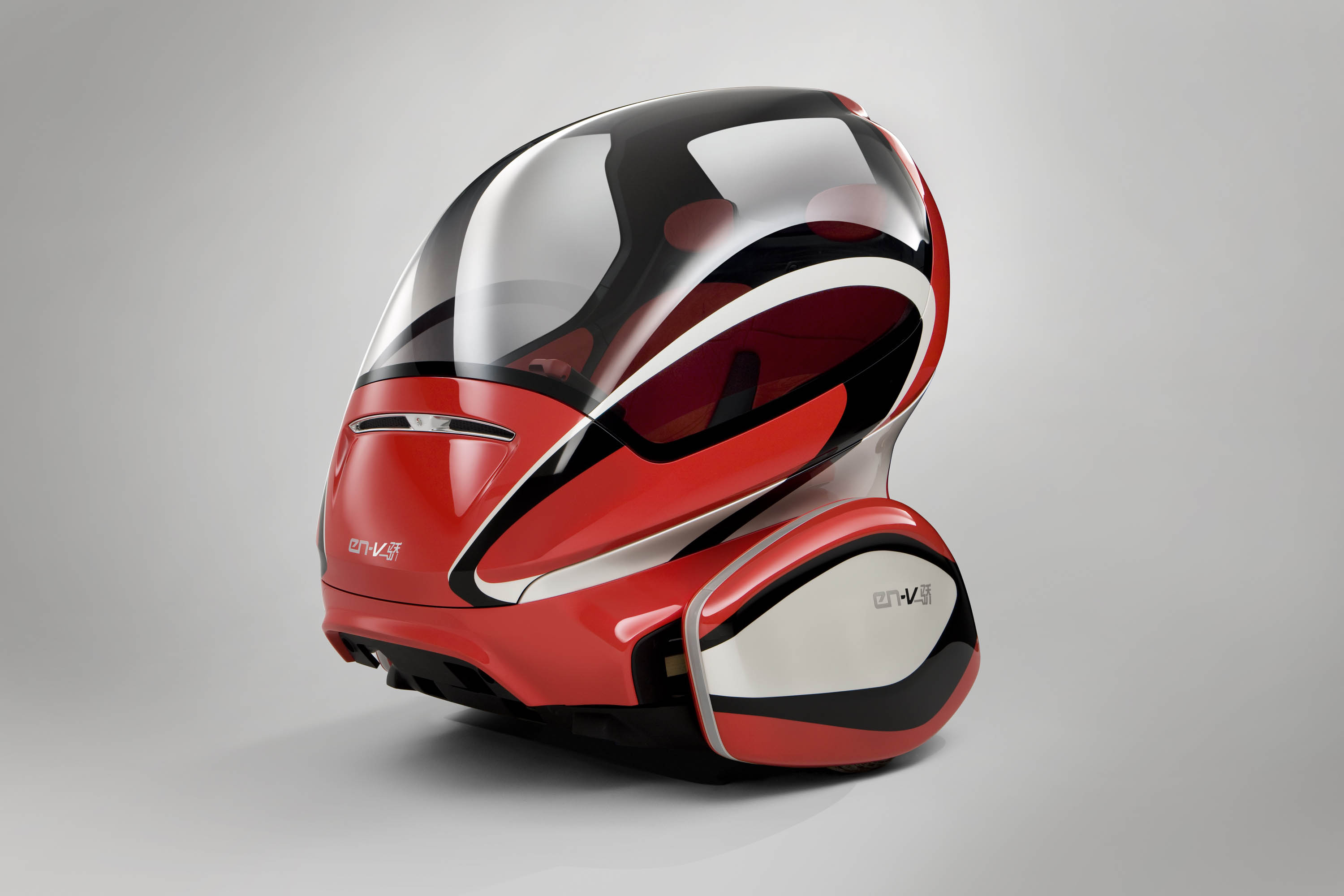 A vision for urban transportation in 2030. GM-Segway EN-V Pride (Jiao) exhibited at the Shanghai Expo 2010.